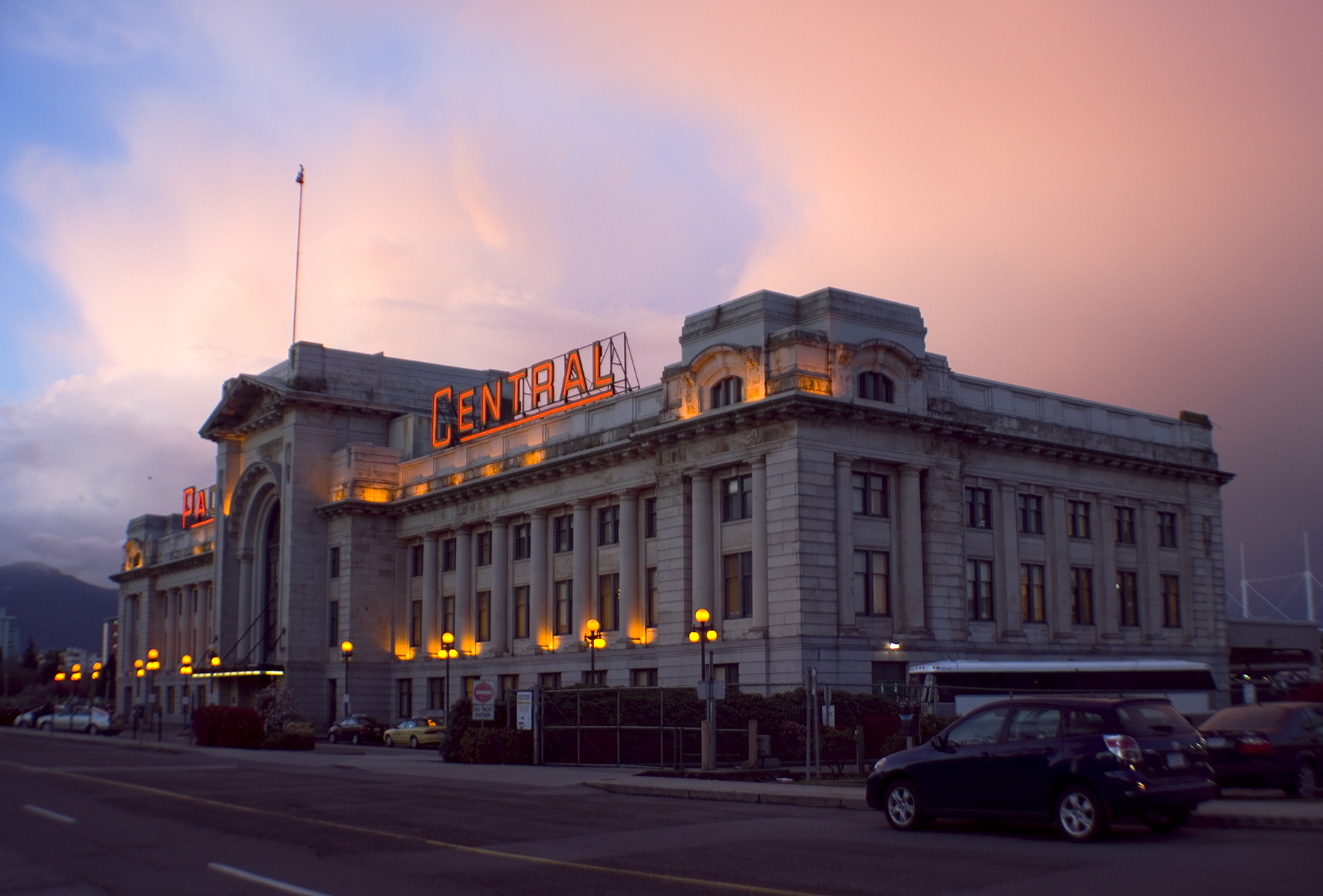 Photograph of Pacific Central station in Vancouver, BC taken by Athen_Ananda.